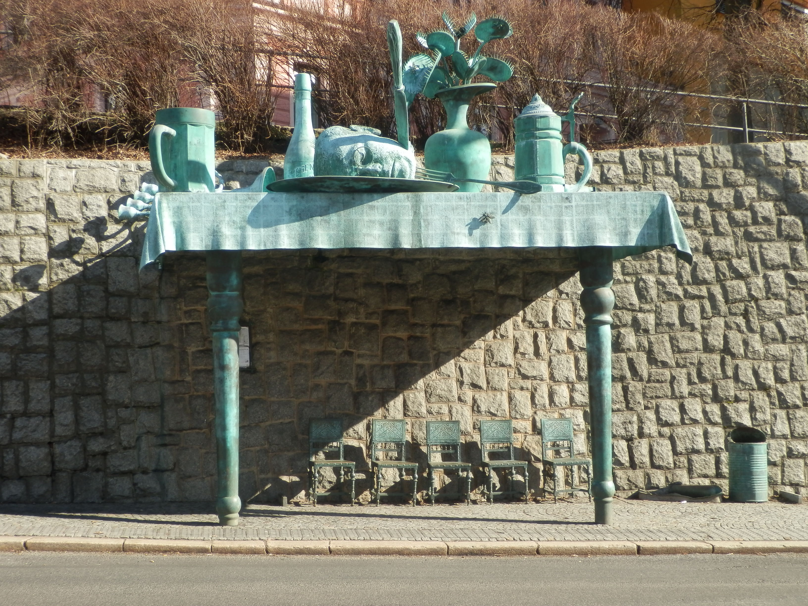 The feast of Giants Stop Liberec Czech Republic 6 Аҧсшәа: Riesenmahlzeit Bushaltestelle in Liberec Tschechien 6